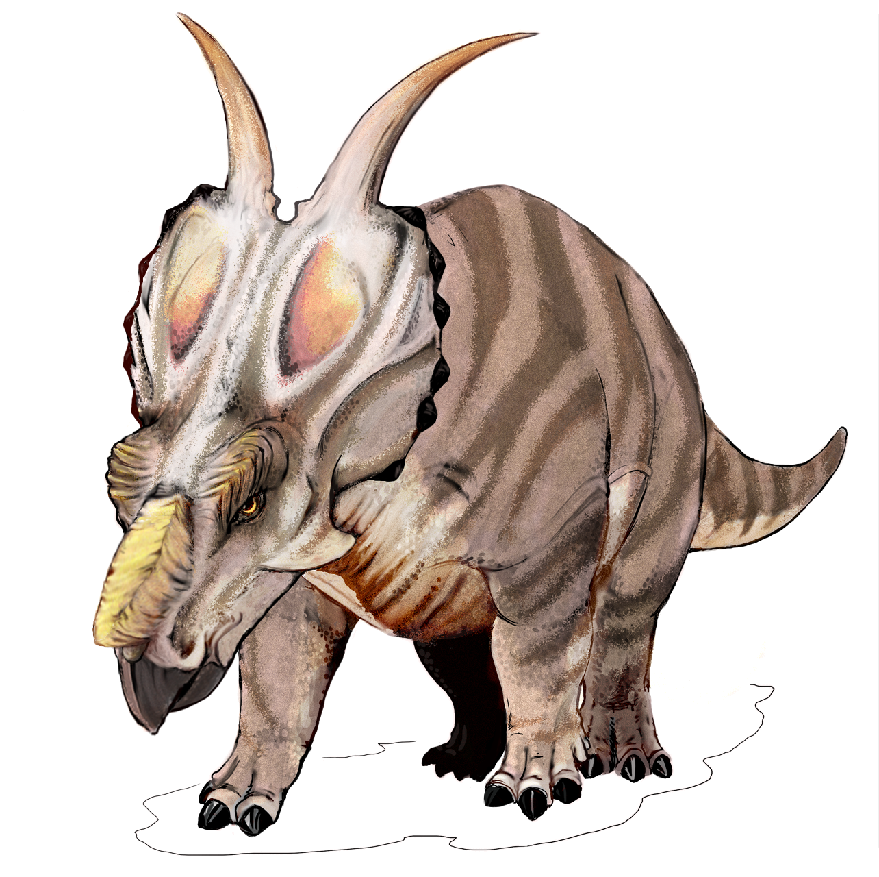 Reconstruction of a Achelousaurus. Matches proportions indicated in Sampson, S.D. 1995. Two new horned dinosaurs from the Upper Cretaceous Two Medicine Formation of Montana; with a phylogenetic analysis of the Centrosaurinae (Ornithischia: Ceratopsidae). Journal of Vertebrate Paleontology 15(4): 743-760.